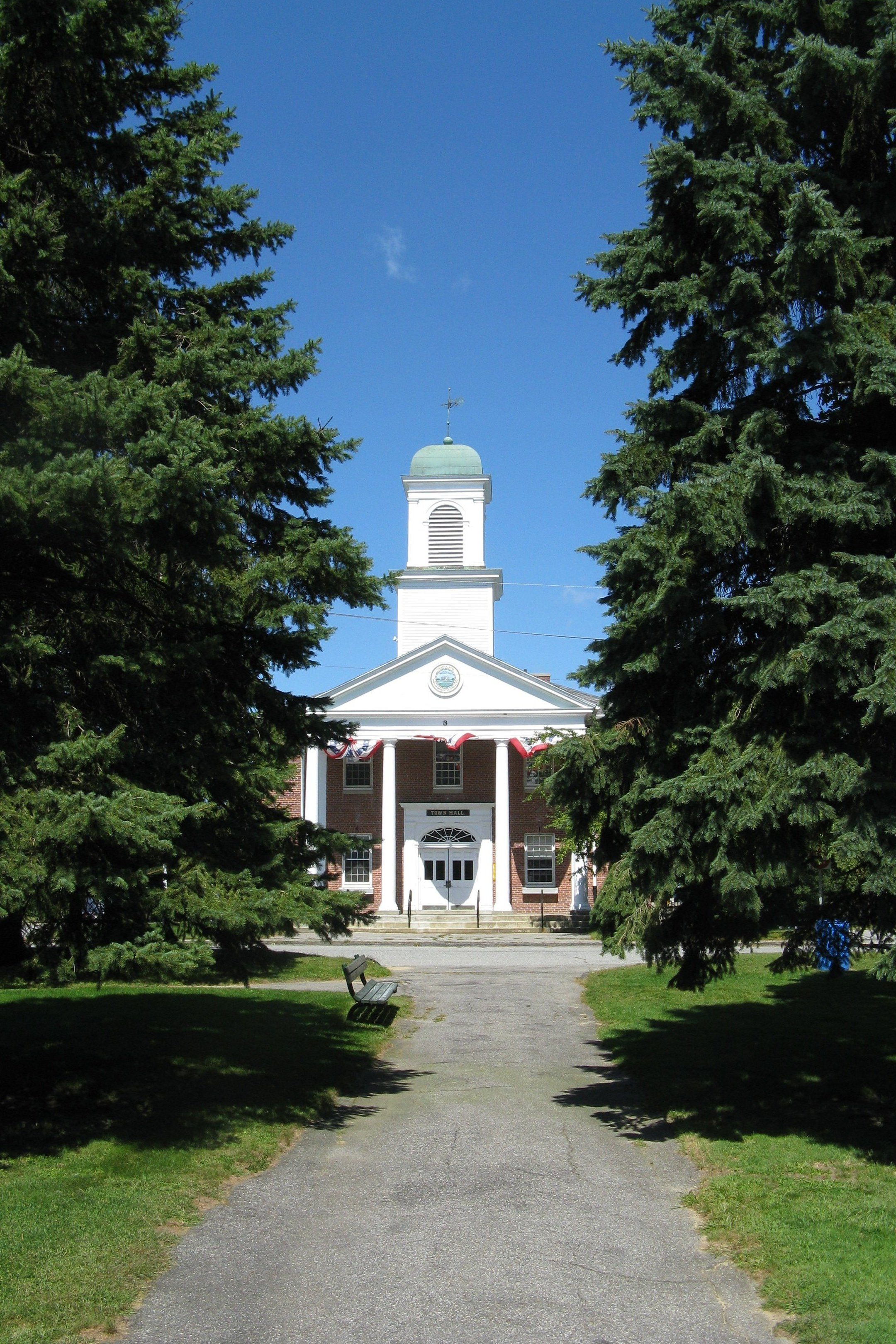 Town Hall, Leicester Massachusetts